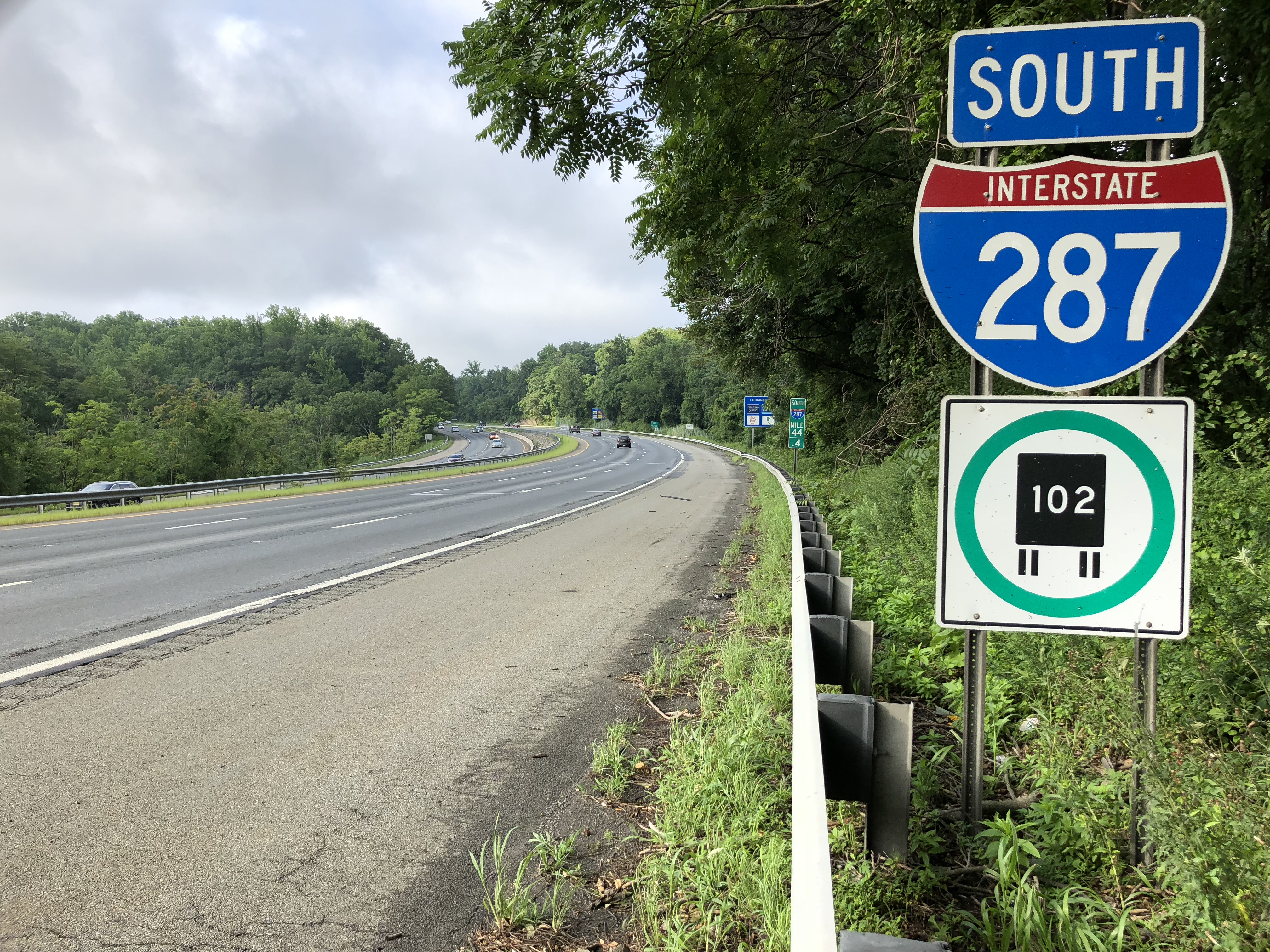 View south along Interstate 287 just south of Exit 45 in Boonton, Morris County, New Jersey